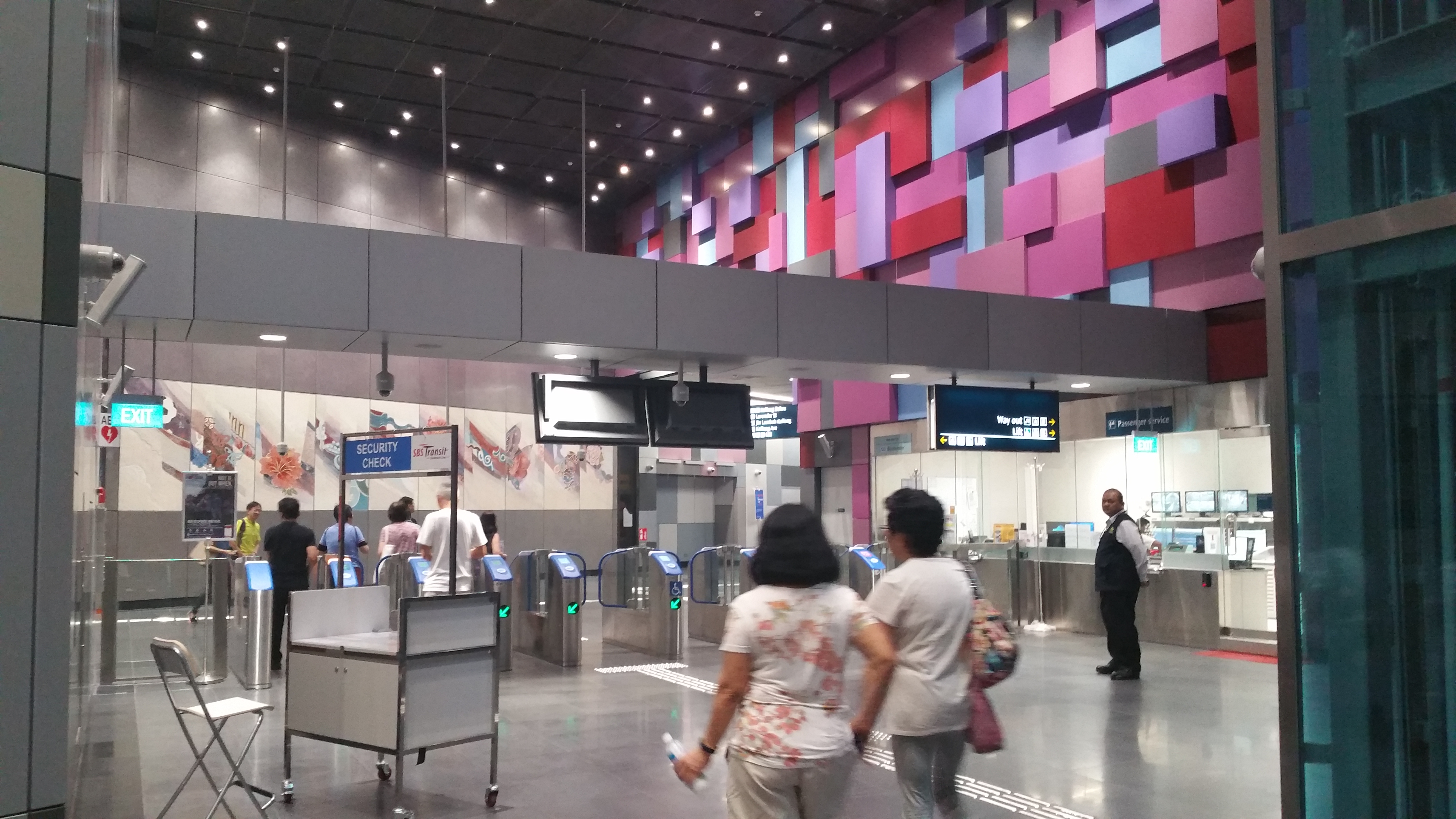 Concourse section of Bendemeer MRT.